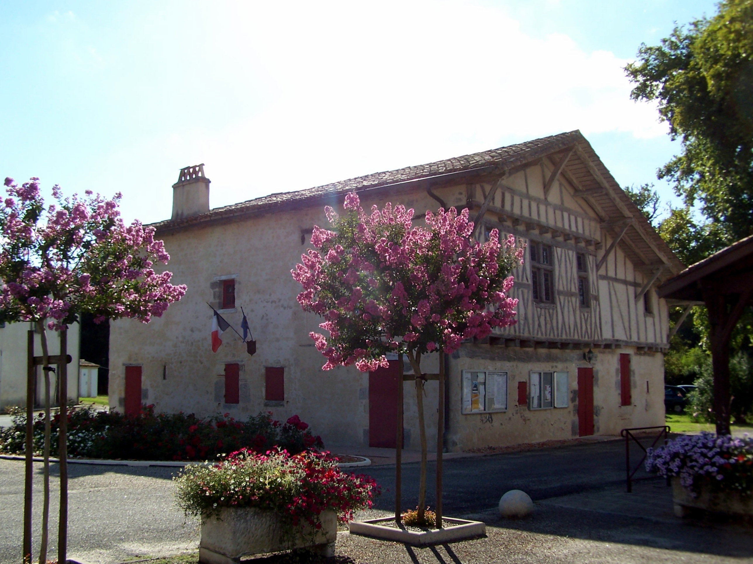 Mairie of Pindères (Lot-et-Garonne, France)